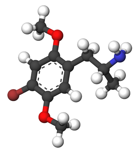 w:2,5-Dimethoxy-4-bromoamphetamine